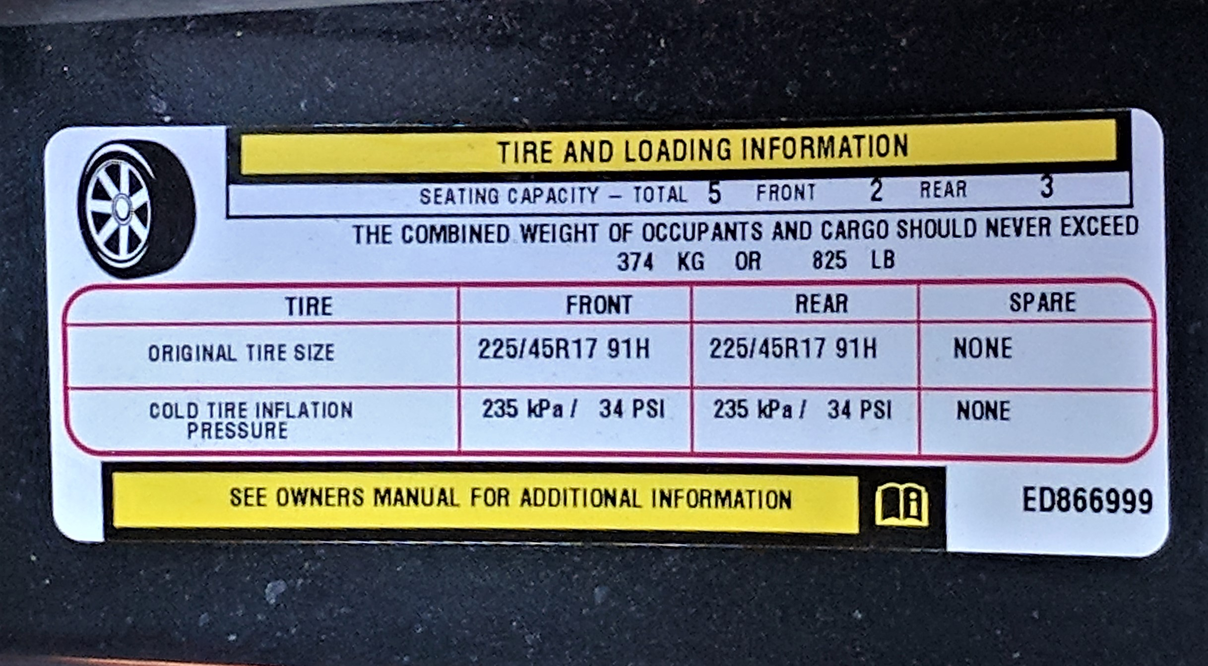 Information sticker on a Dodge Dart displaying the vehicles tire and load capacity.